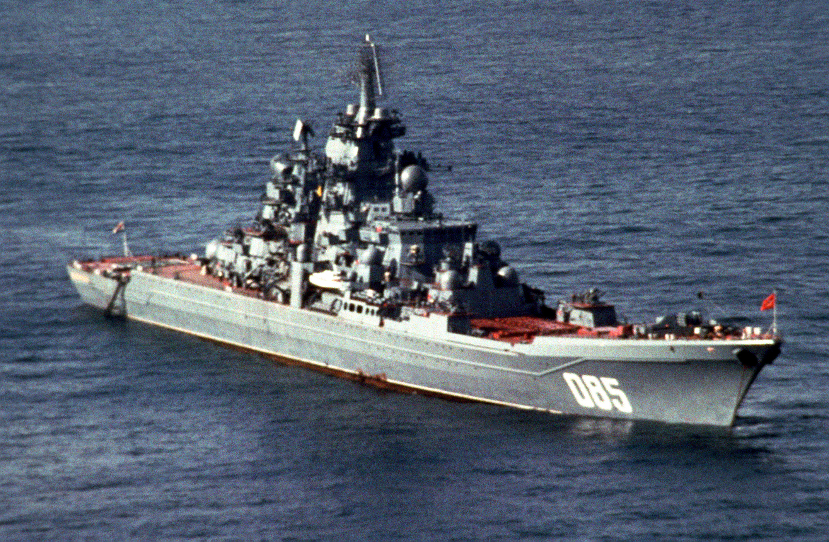 A starboard bow view of the Soviet Kirov class nuclear-powered guided missile cruiser KALININ.